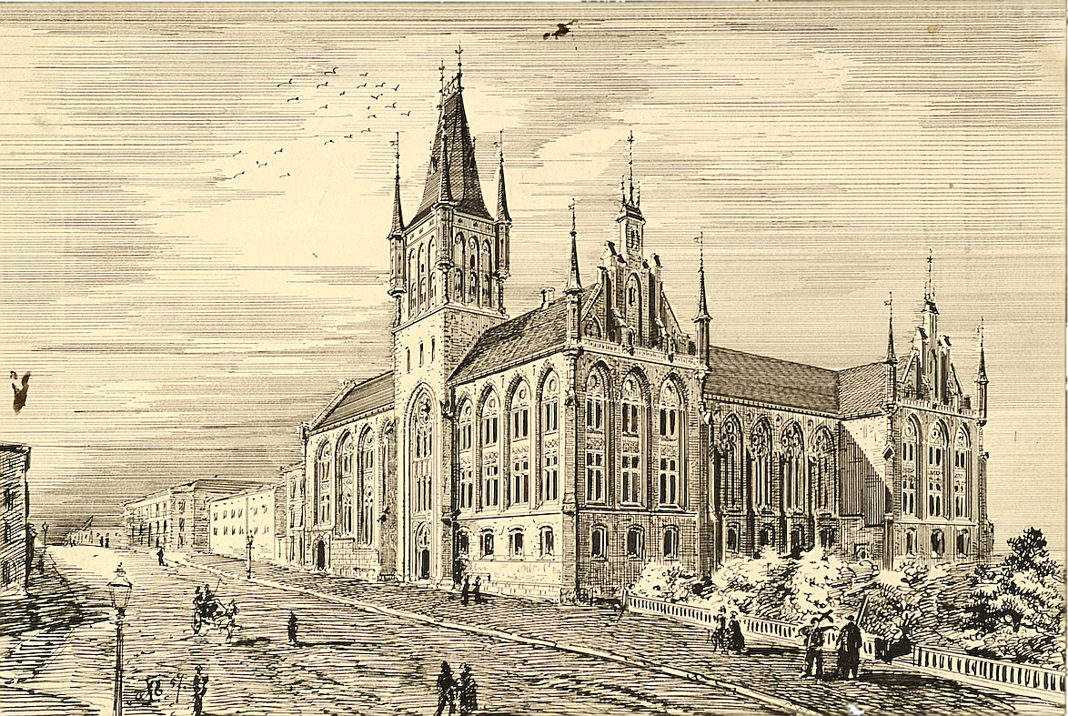 Heinrich Ernst Schirmer and Wilhelm von Hanno's propsal for the Parliament of Norway Building that won the 1856 competition. However, the proposal was rejected by the parliament because it looked too much like a church.